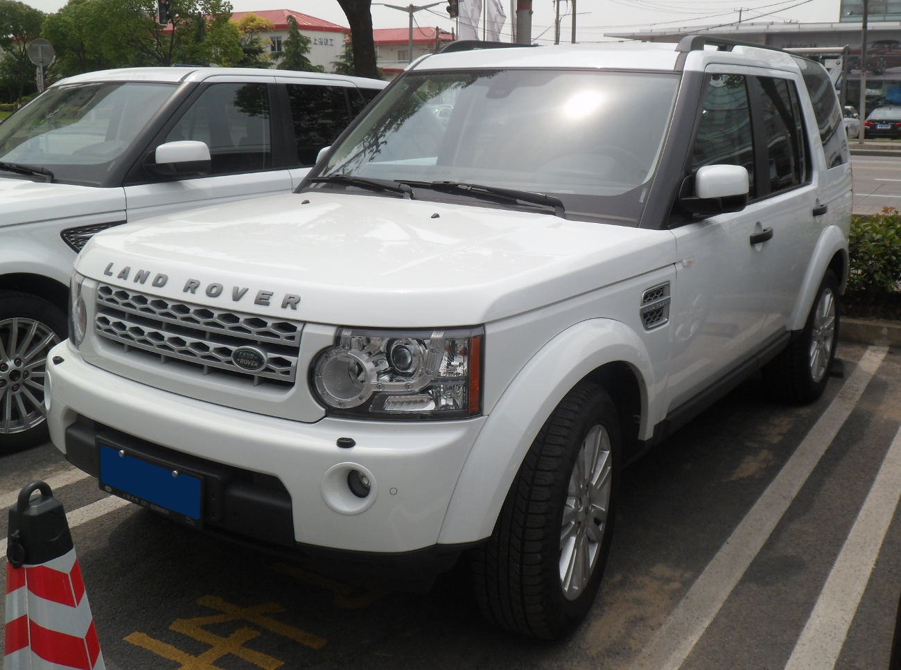 Land Rover Discovery IV photographed in Shanghai, China.